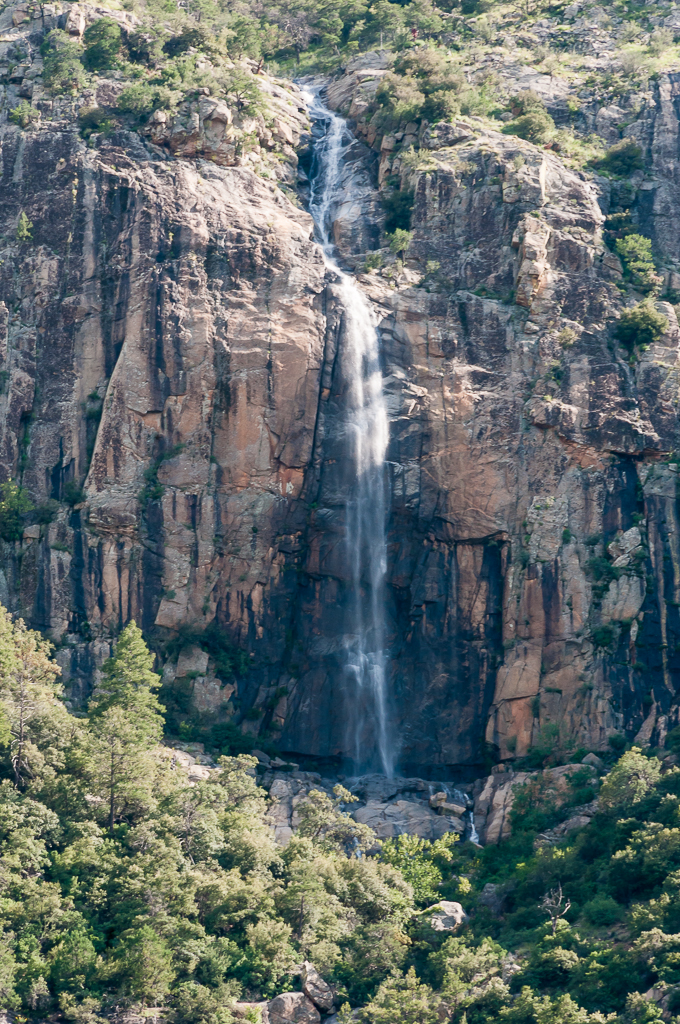 View of the intermittent 300-ft Carr Falls in the Huachuca Mountains, Arizona.